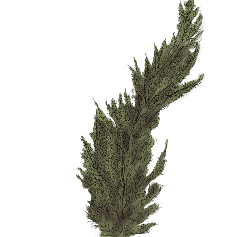 Seaweed